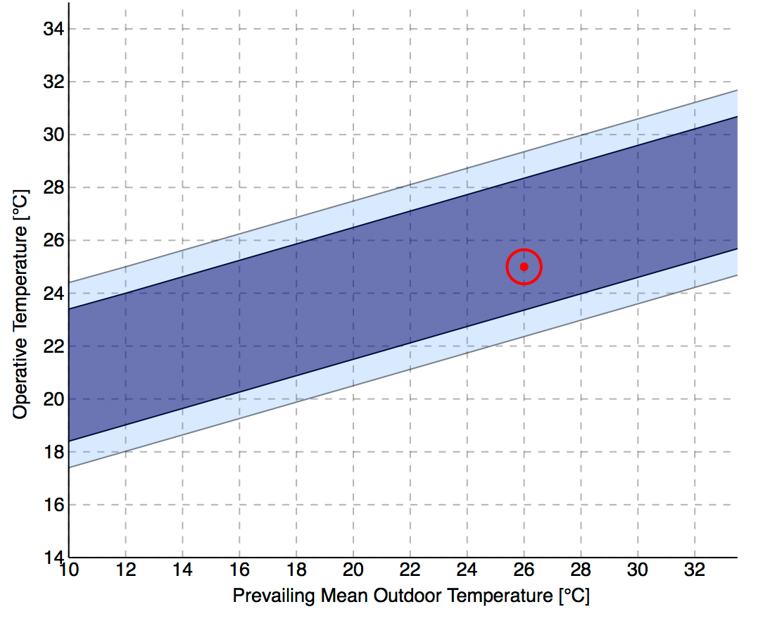 This chart represents the acceptable combination of indoor operative temperature and prevailing mean outdoor temperature. The blue regions are the 80% and 90% acceptability comfort zones, according to the adaptive method in the ASHRAE 55-2010 Standard.